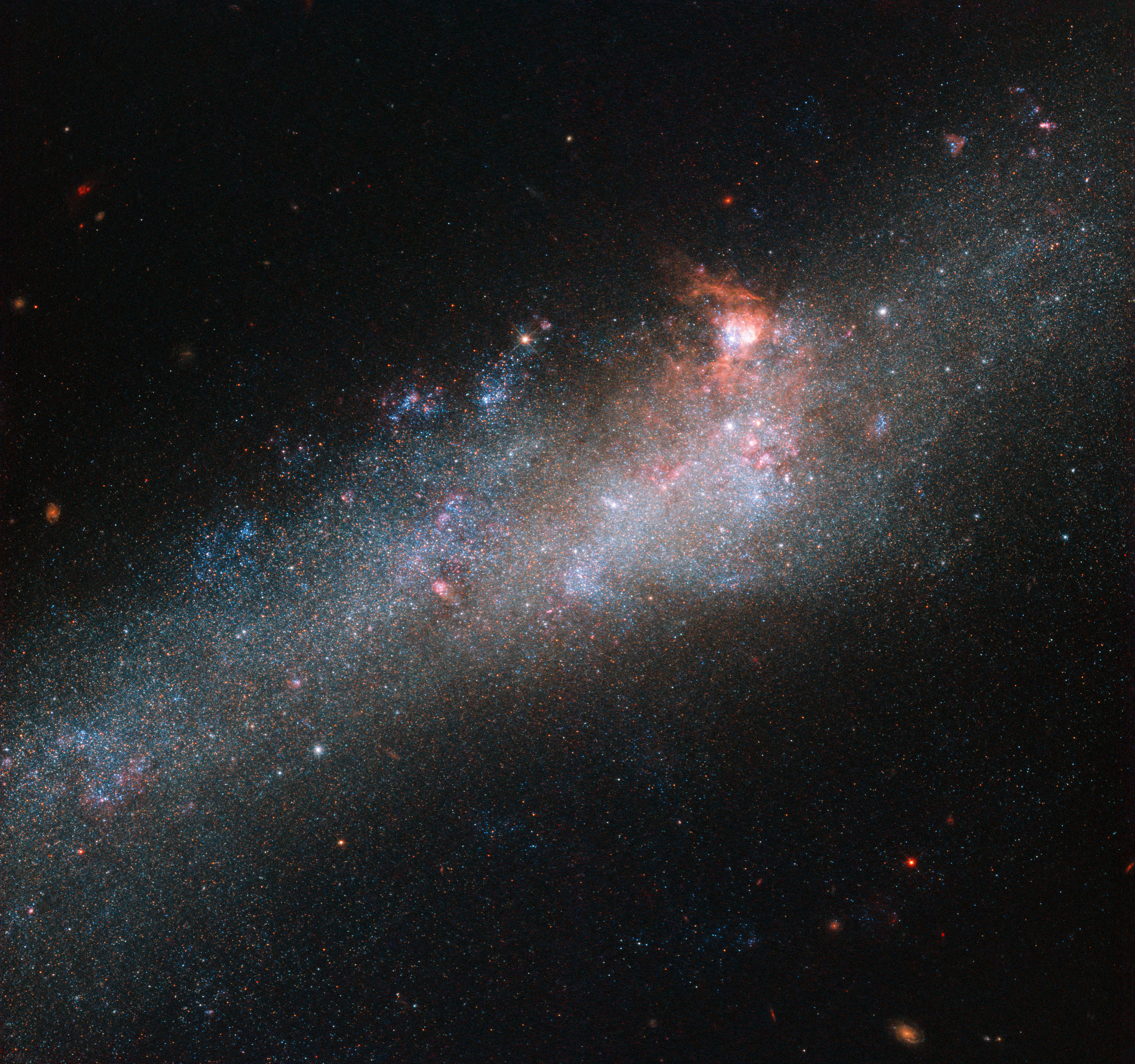 The star of this Hubble Picture of the Week is a galaxy known as NGC 4656, located in the constellation of Canes Venatici (The Hunting Dogs). However, it also has a somewhat more interesting and intriguing name: the Hockey Stick Galaxy! The reason for this is a little unclear from this partial view, which shows the bright central region, but the galaxy is actually shaped like an elongated, warped stick, stretching out through space until it curls around at one end to form a striking imitation of a celestial hockey stick. This unusual shape is thought to be due to an interaction between NGC 4656 and a couple of near neighbours, NGC 4631 (otherwise known as The Whale Galaxy) and NGC 4627 (a small elliptical). Galactic interactions can completely reshape a celestial object, shifting and warping its constituent gas, stars, and dust into bizarre and beautiful configurations. The NASA/ESA Hubble Space Telescope has spied a large number of interacting galaxies over the years, from the cosmic rose of Arp 273 to the egg-penguin duo of Arp 142 and the pinwheel swirls of Arp 240.